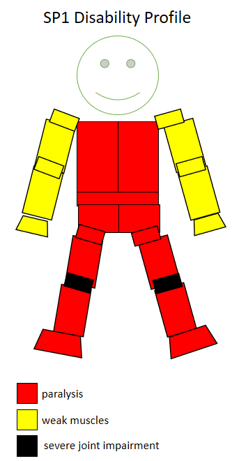 Shows F1 SP1 disability sports profile. Created using information from